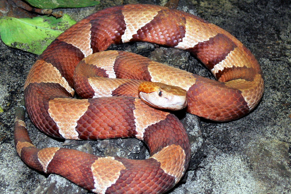 Agkistrodon contortrix mokeson taken at the Tierpark Berlin, Germany